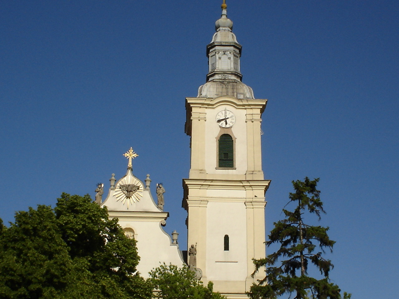 Barátok church in Gyöngyös, Hungary